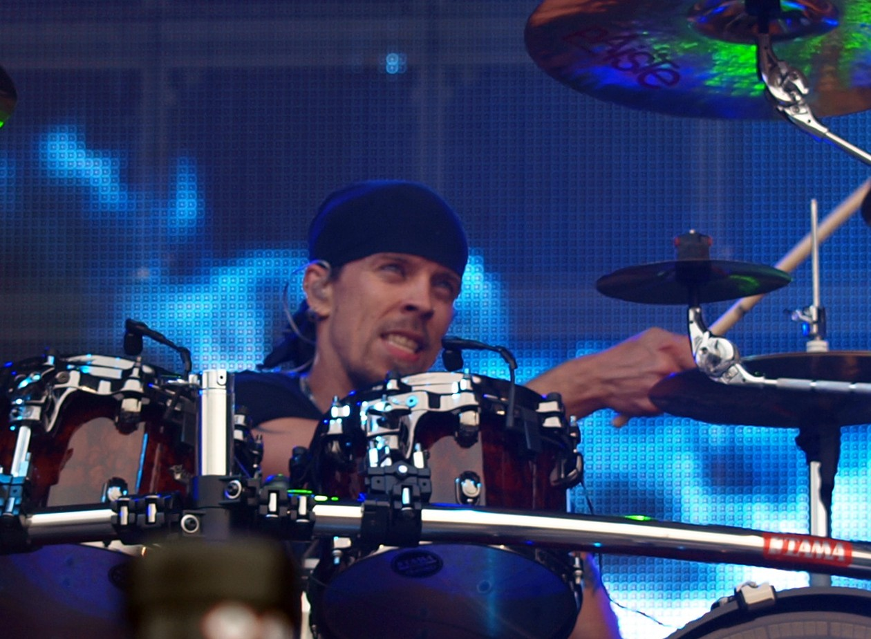 Jukka Nevalainen (Nightwish) at Tuska Open Air 2013.